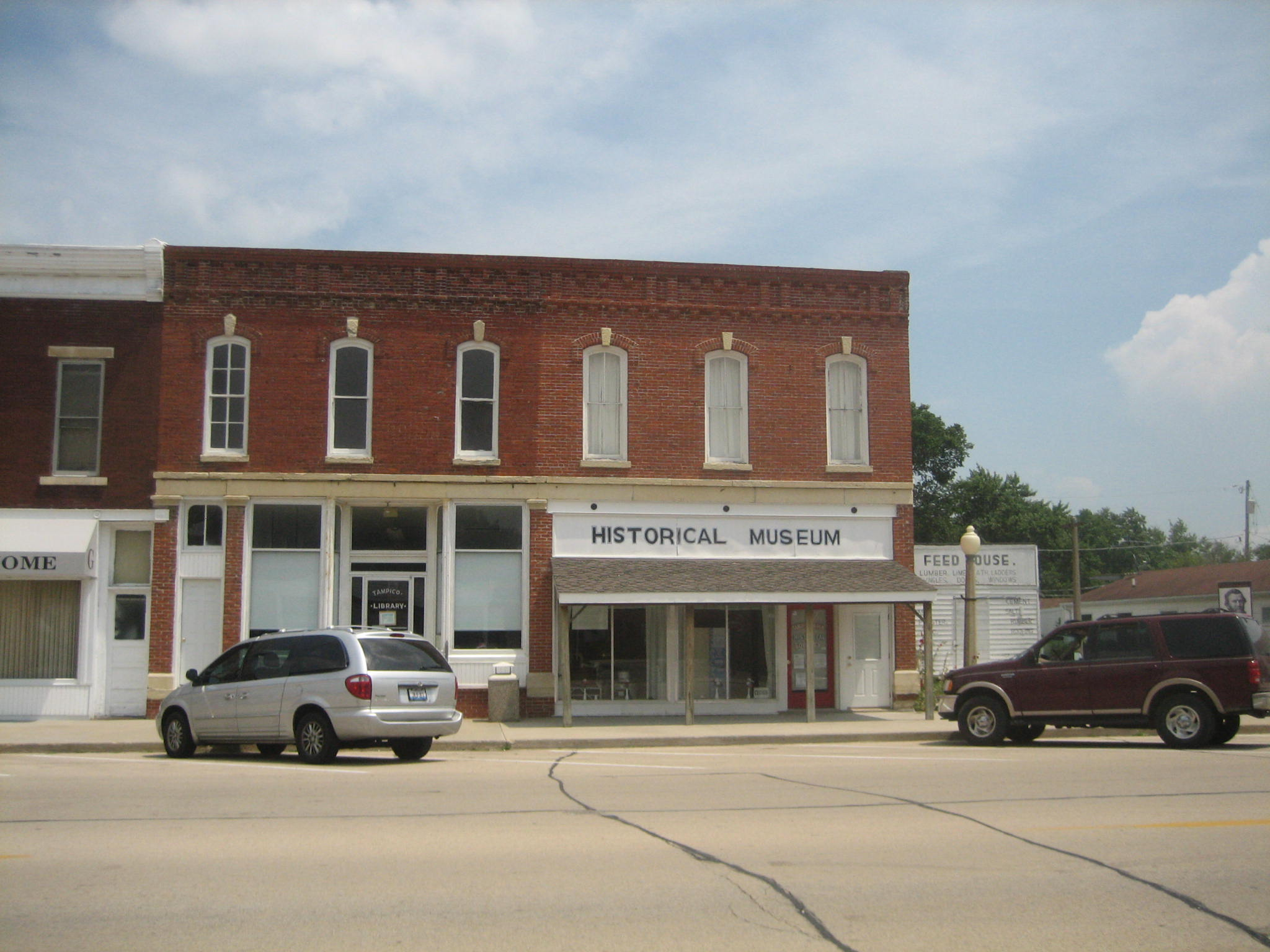 Main Street Historic District, Tampico, Illinois. U.S. National Register of Historic Places. 117 S. Main St. (left) and 119 S. Main St. (right).